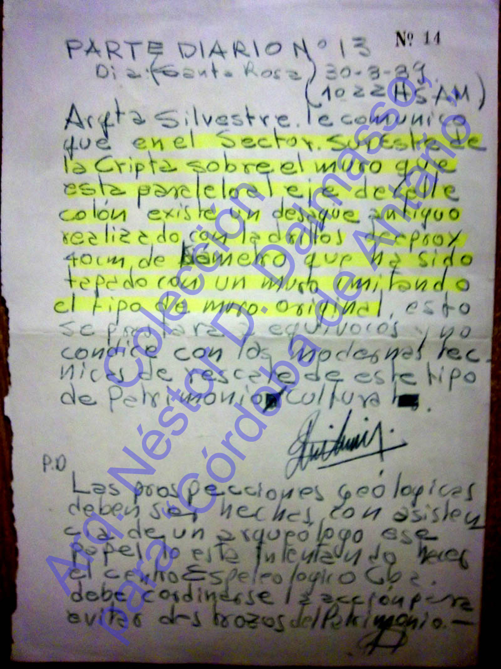 In 1989, together with Dr. Croce, he participated as a member of the Caving Center Córdoba (C.E.C.) of the rescue of the "Jesuit Crypt" of Av. Colón esq. Rivera Indarte of the City of Córdoba -Republica Argentina-, while demanding the presence of an Archaeologist (who never arrived).